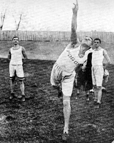 Polish football player, javelin thrower and luger - Franciszek Skopal.